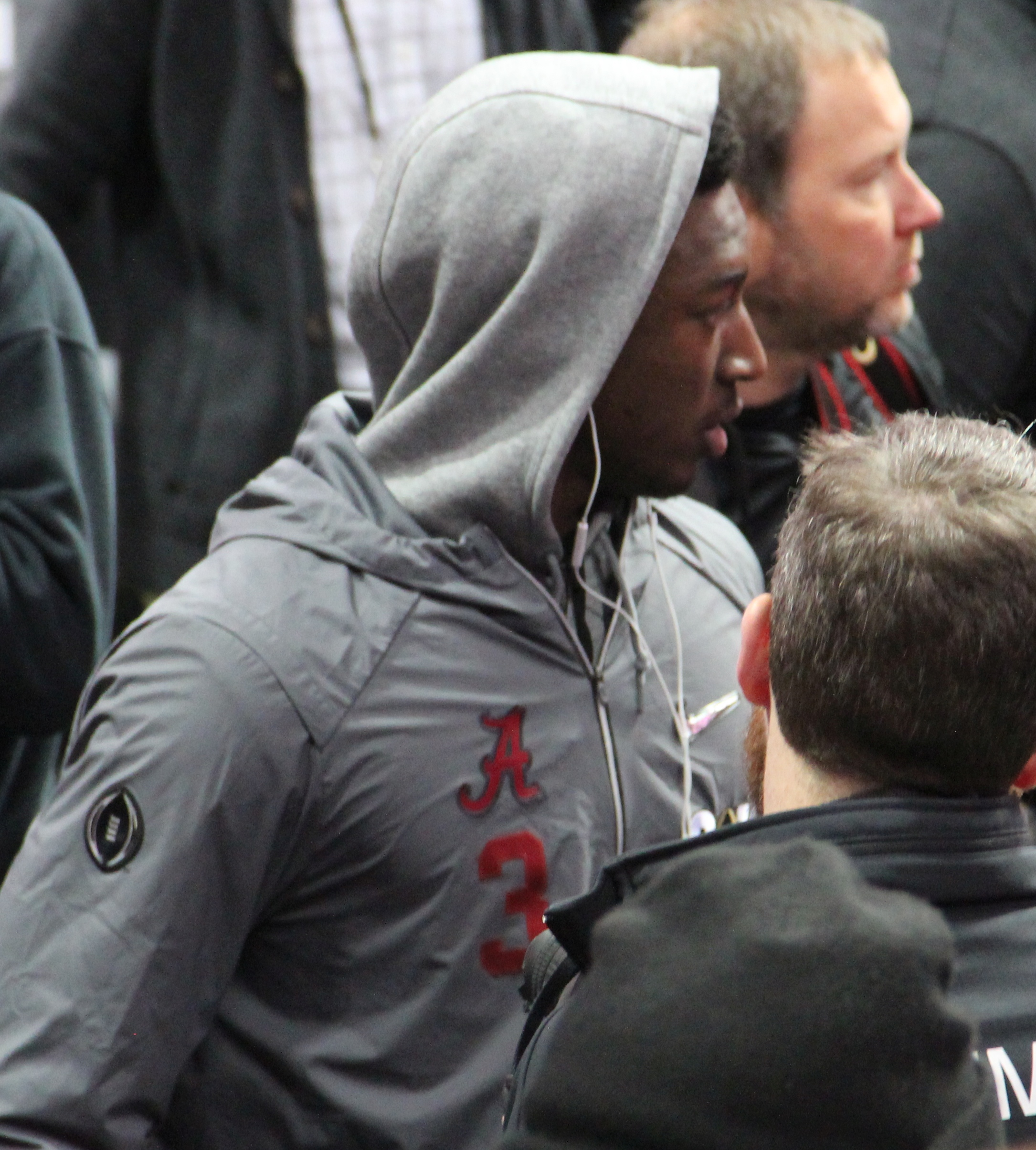 Calvin Ridley in 2018